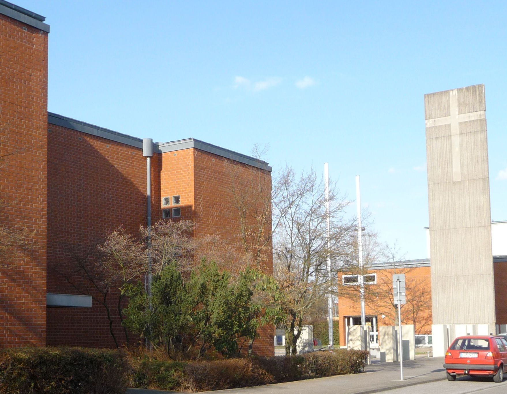 Church in Ludwigshafen, Germany